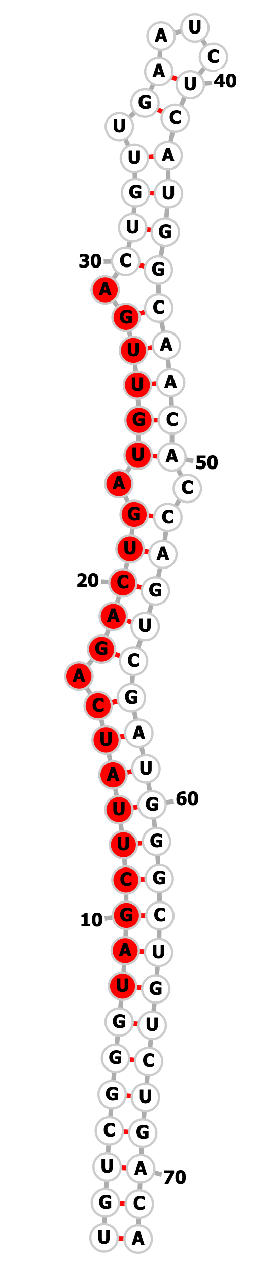 Secondary structure of pre-miRNA hsa-mir-21 with mature miRNA sequence appearing in red and obtained with RNAfold.